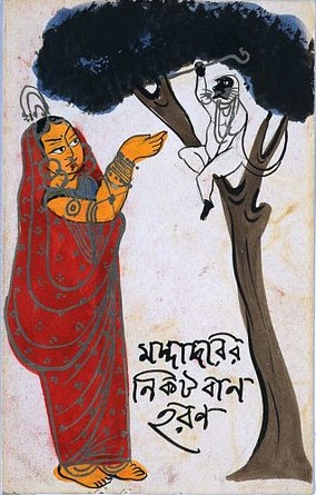 Hanuman obtaining Mandodari's weapon